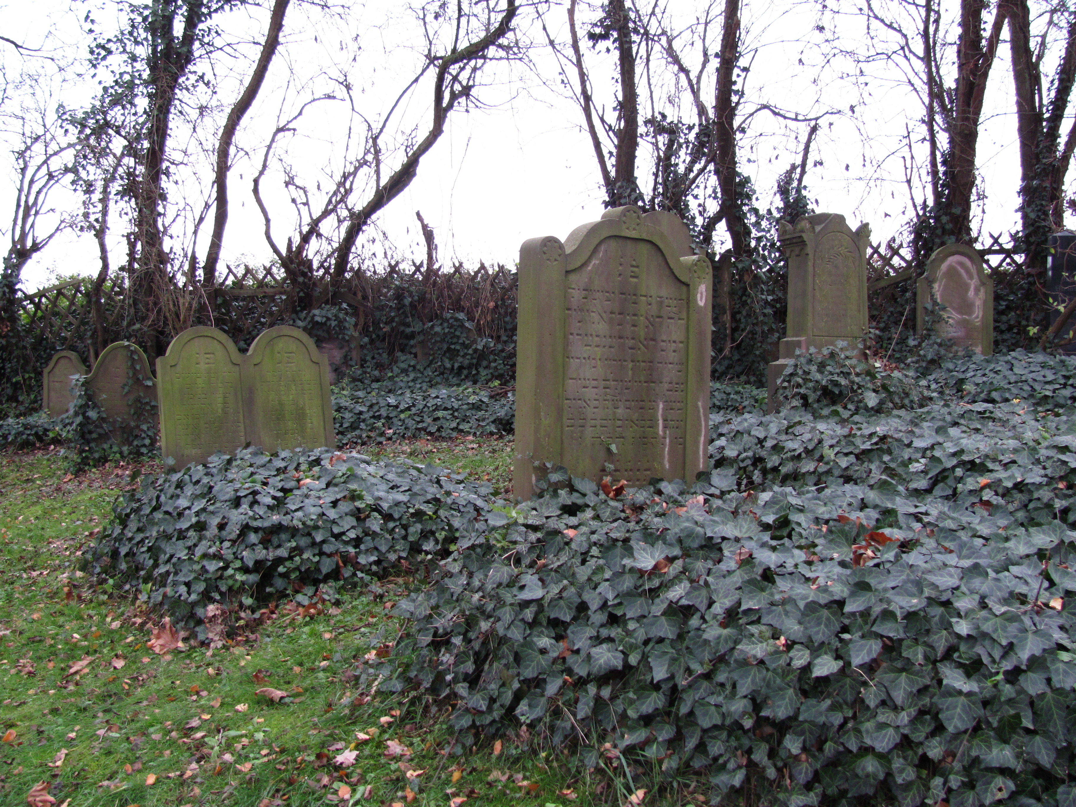 Former Jewish Cemetery in Dassel, Germany.